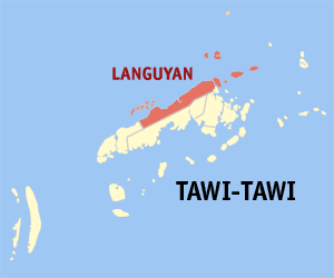 Map of the Tawi-Tawi showing the location of Languyan